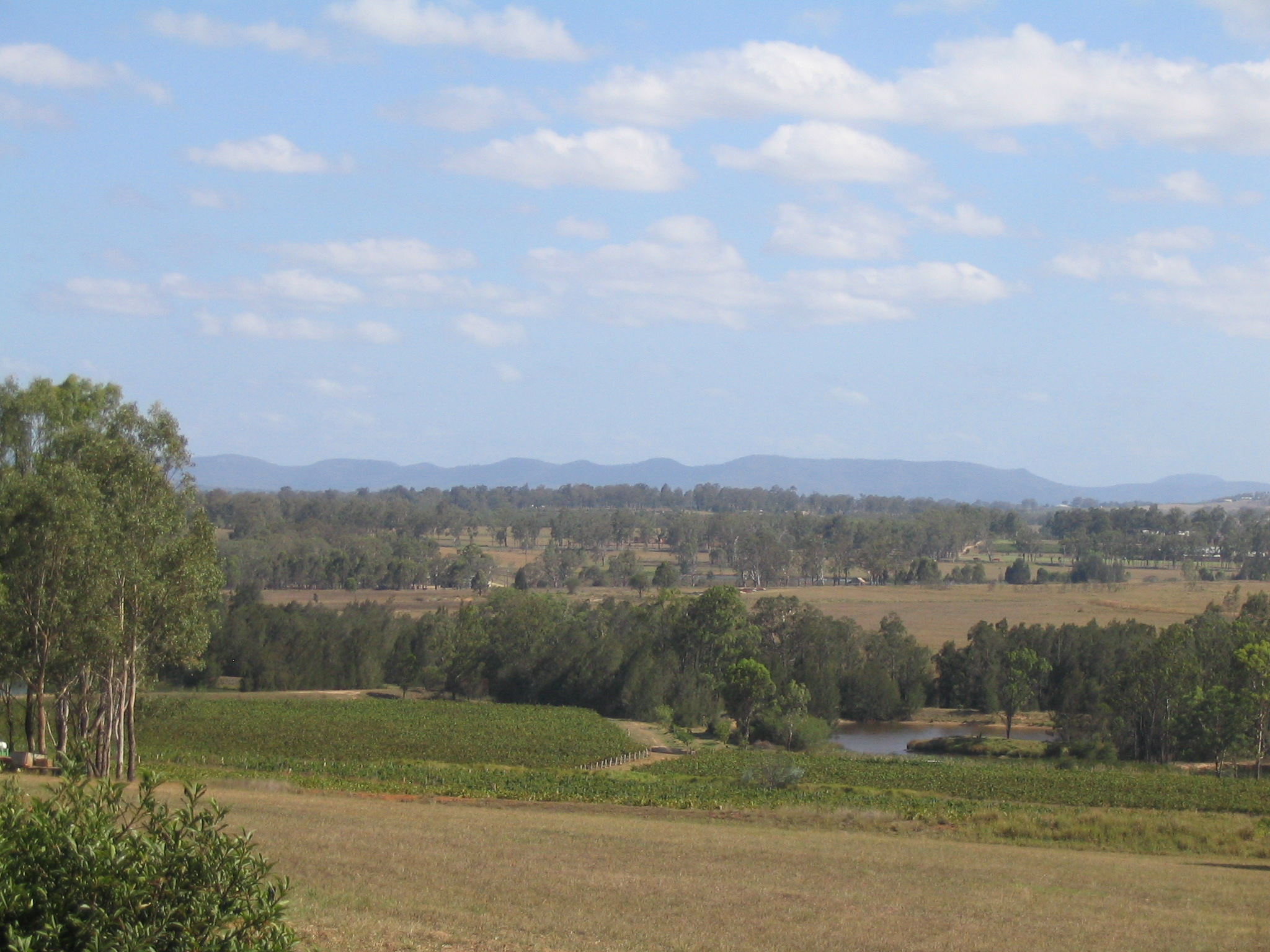 Fields, trees, and a distant ridge in the Hunter Valley , a wine-growing area north of Sydney, Australia. Probably taken from the parking lot of Waverly Aged Wines